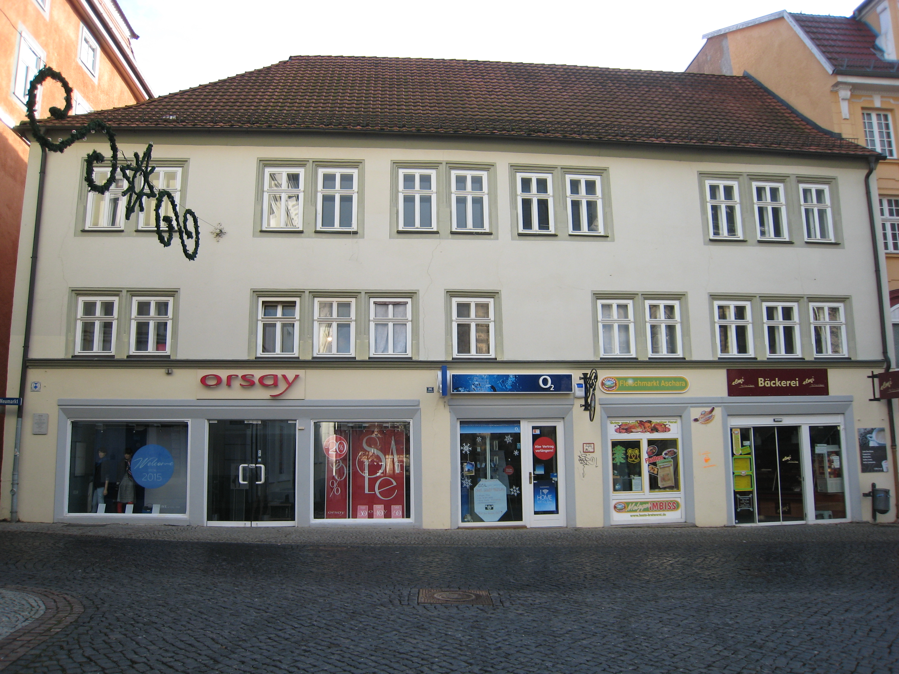 House in Gotha, Neumarkt 26, birthplace of Dorette Spohr